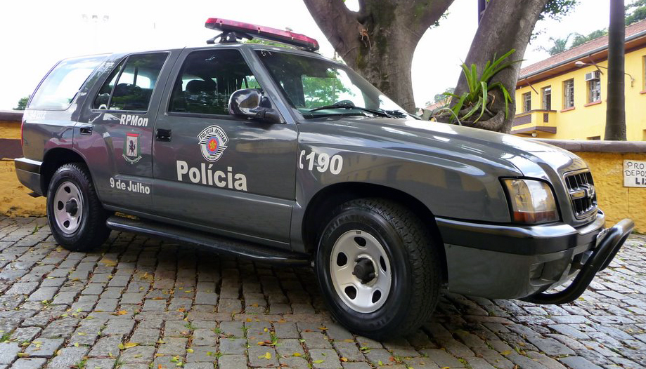 Chevrolet Blazer belonging to the Military Police of the 9th of July Cavalry Regiment